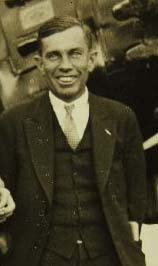 Catalog #: 02-W-00141 Period photograph, c. 1930s Last Name: Wedell, First Name: Jimmy Repository: San Diego Air and Space Museum Archive